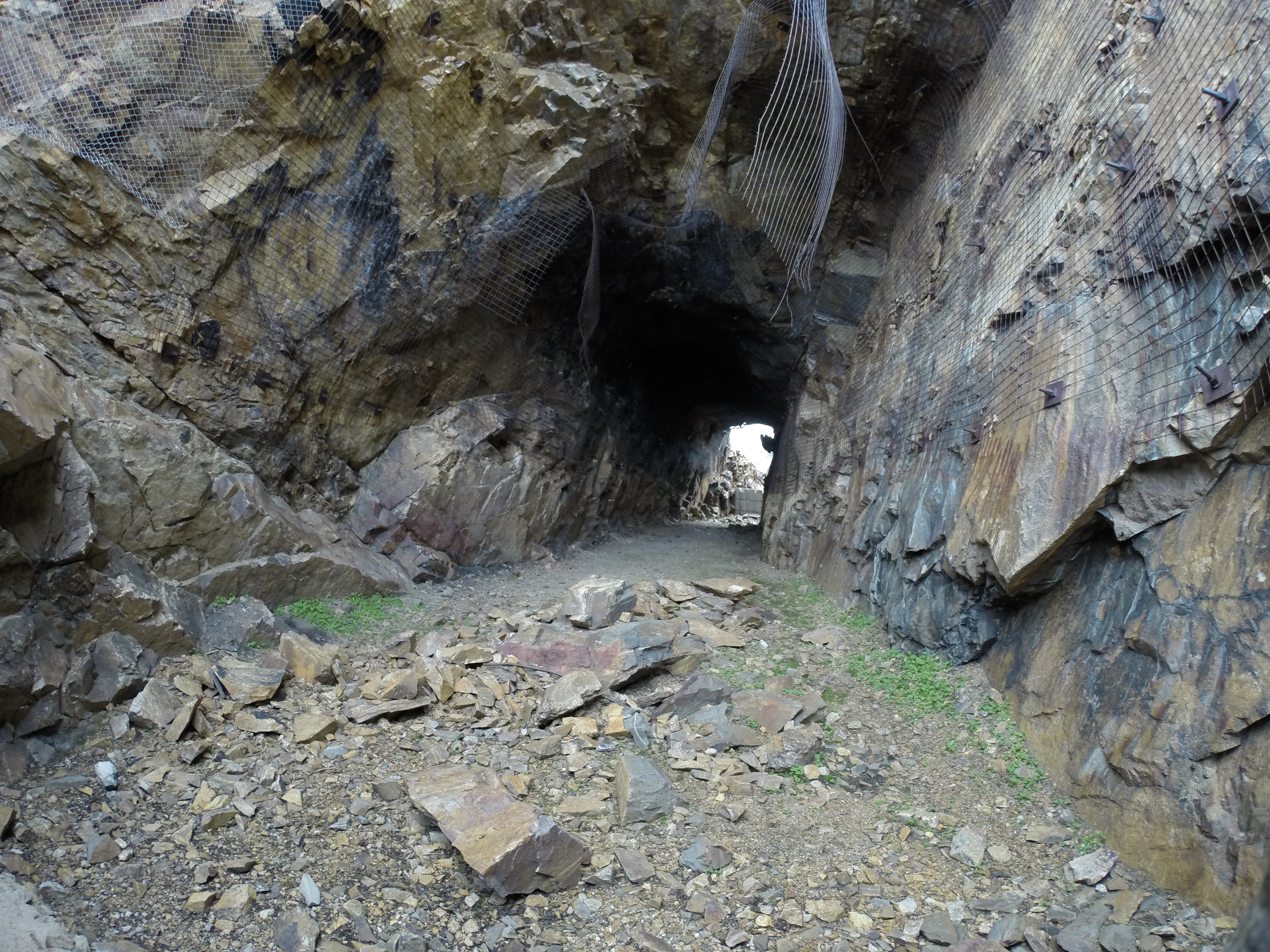 Needle's Eye Tunnel on Rollins Pass - August 2014